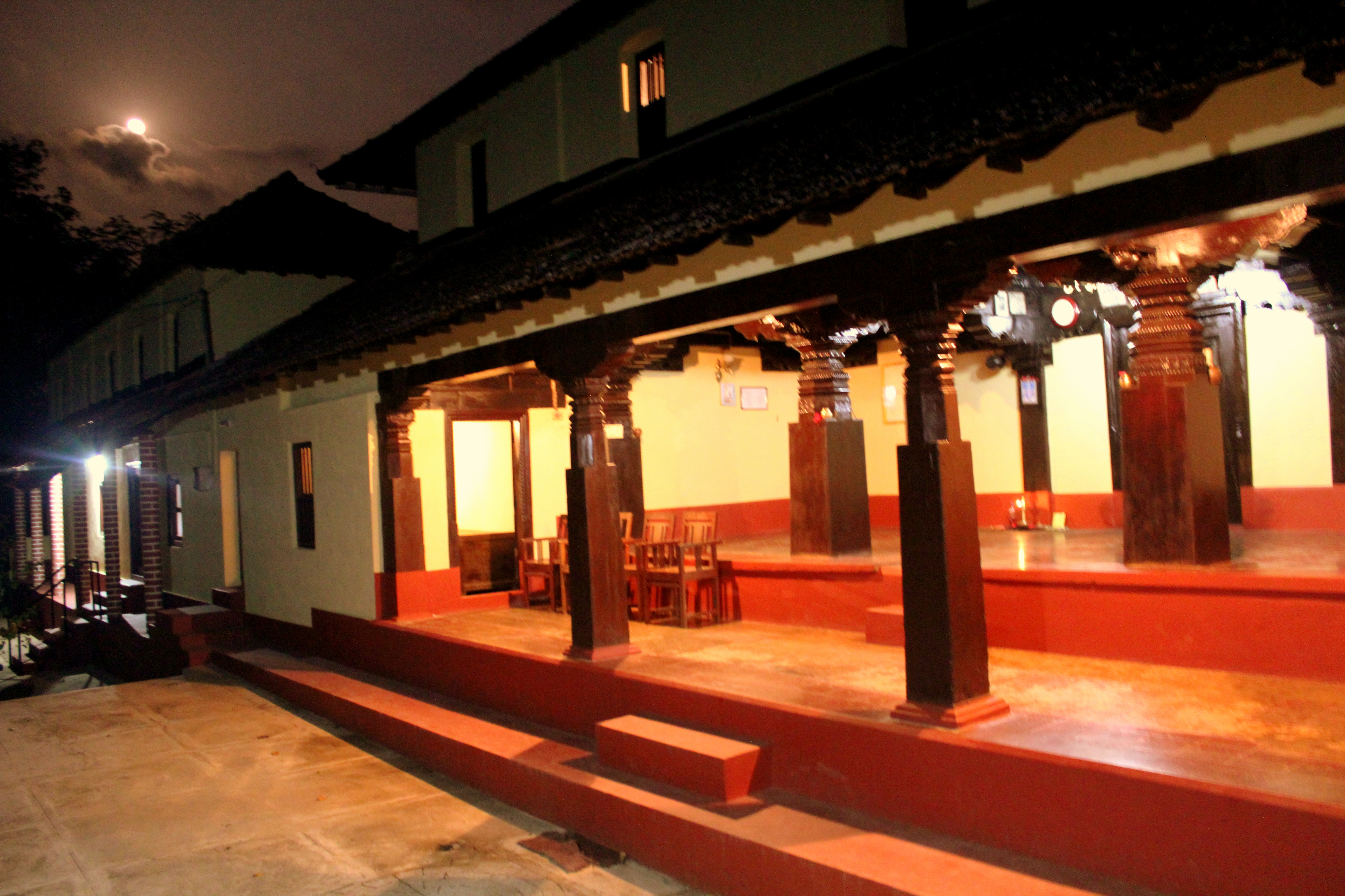 Front view of the house of Kowdoor Nayarbettu